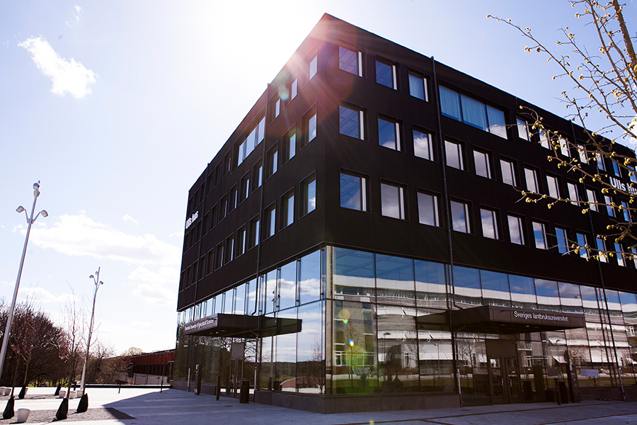 The University Administration is located in Ulls hus at SLU, Uppsala.